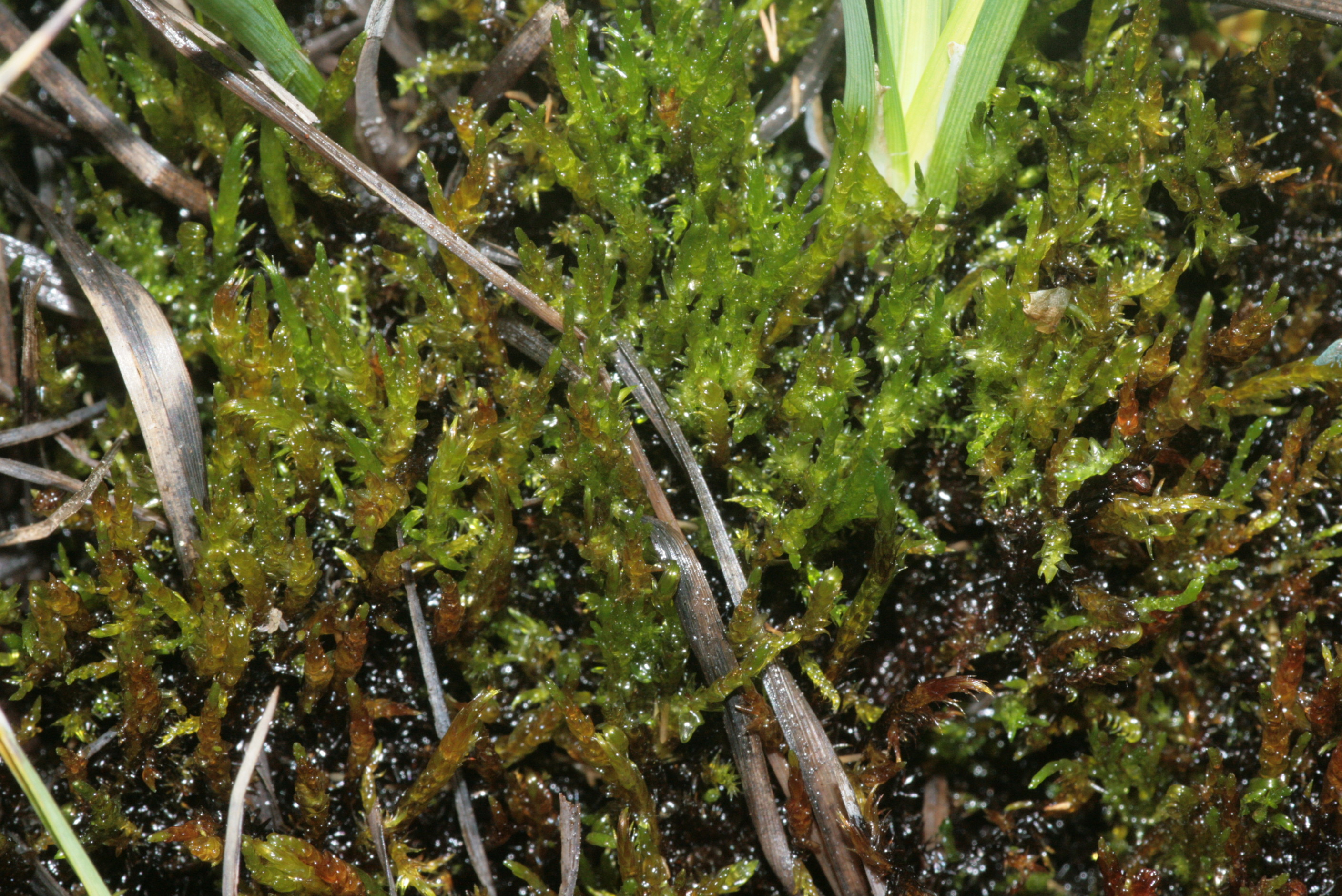 Warnstorfia sarmentosa